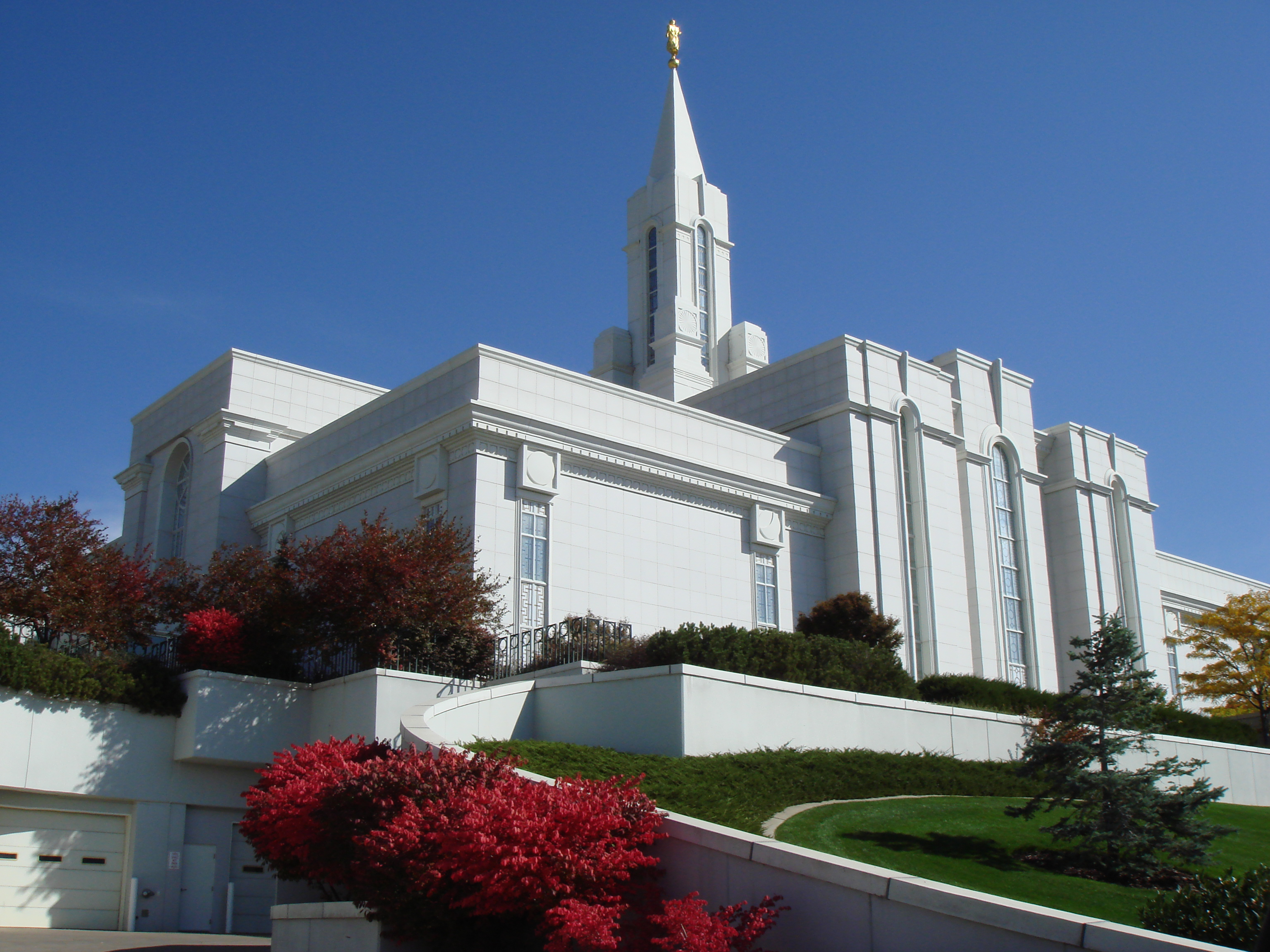 The Bountiful Utah Temple of the Church of Jesus Christ of Latter-day Saints. Photograph taken by User:Dannywsu on 10/1/06.